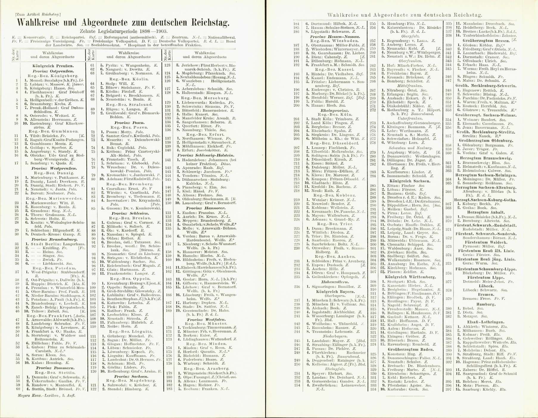 Listing of the elected members of the German Reichstag 1898-1903 (addendum to the election map 1898-1903).